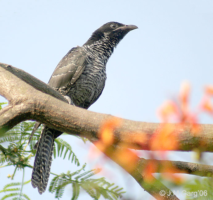 Asian Koel Eudynamys scolopaceus in Kolkata, West Bengal, India.